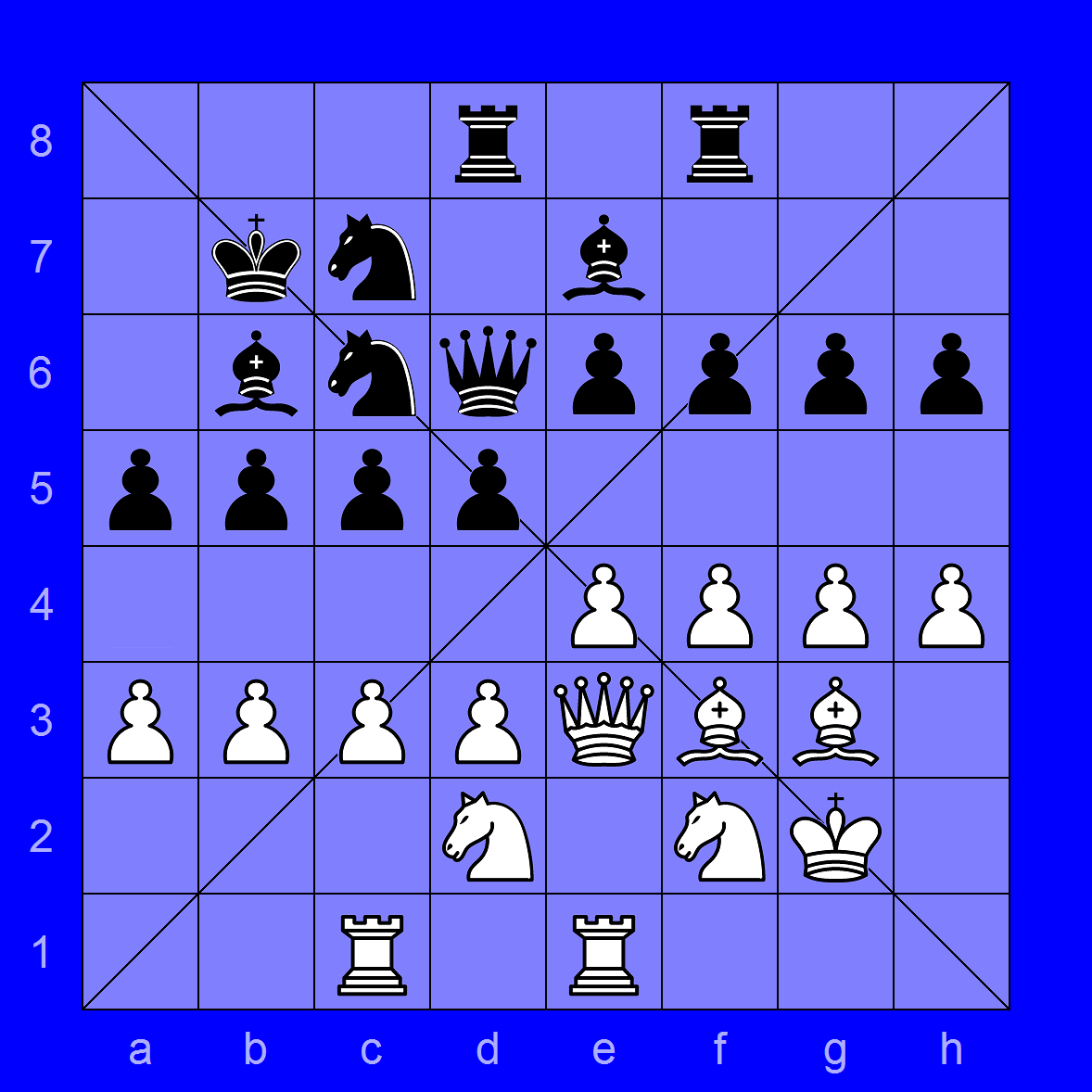 Using the great chess icons fashioned by David Benbennick (User:Dbenbenn), done in MS PAINT (the blue & purple are standard PAINT colors).